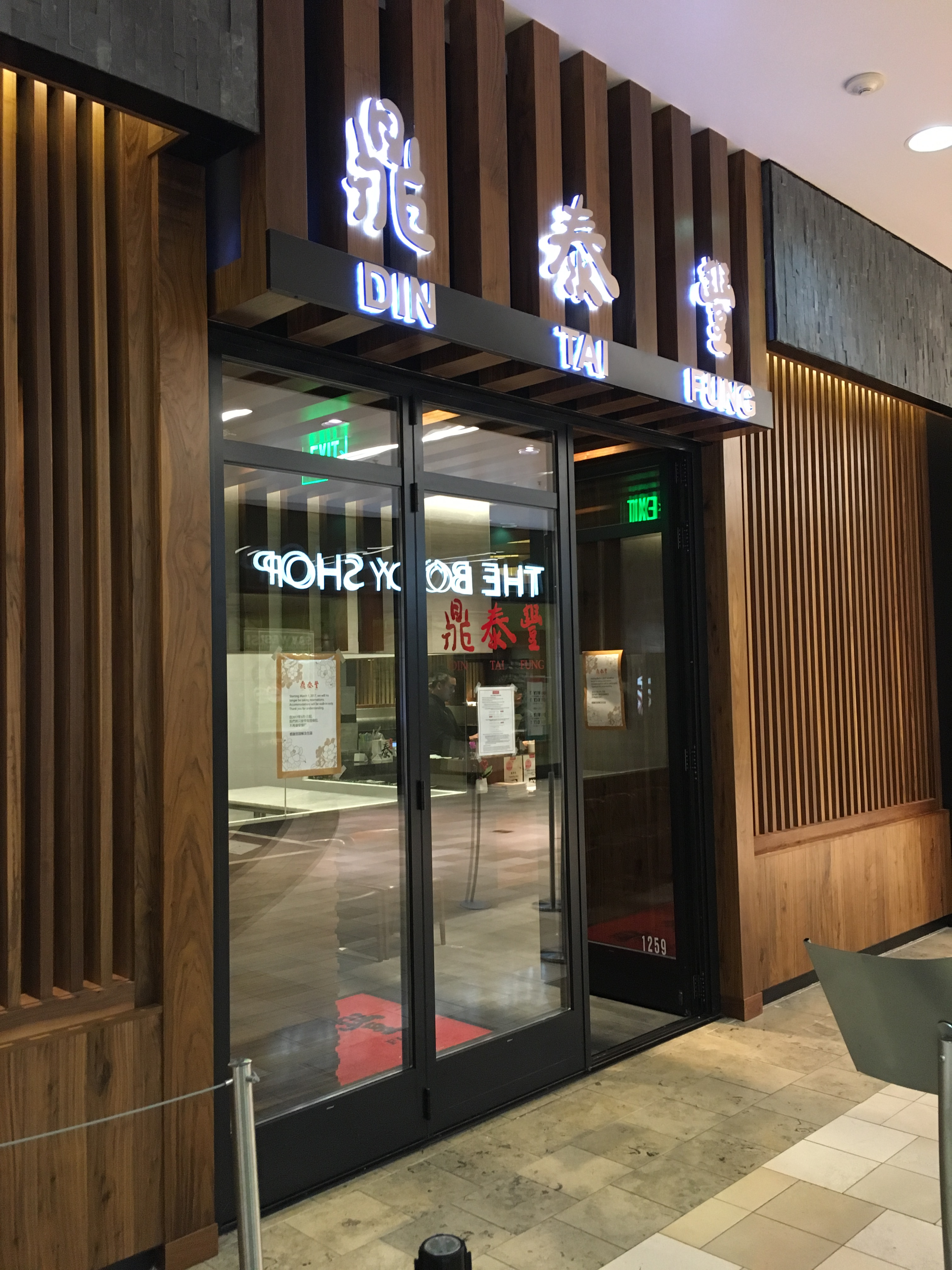 Westfield Valley Fair